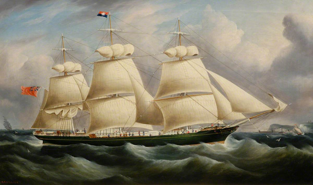 Launched in April 1861 at the yard of Walter Hood & Co., the vessel was lost on 31st May 1881 when bound out to Sydney. All were saved except one crewman.